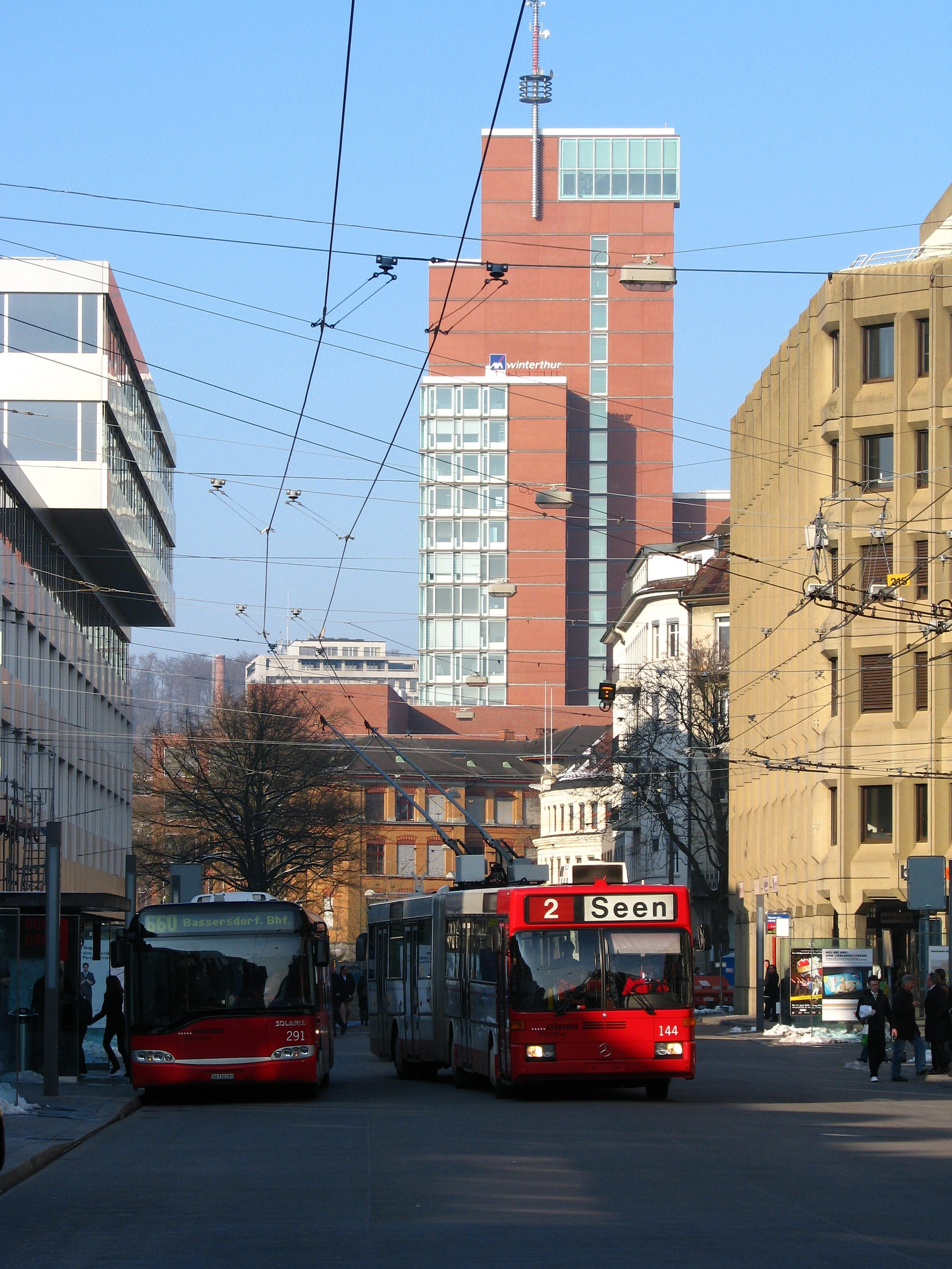 Roter Turm as seen from Hauptbahnhof